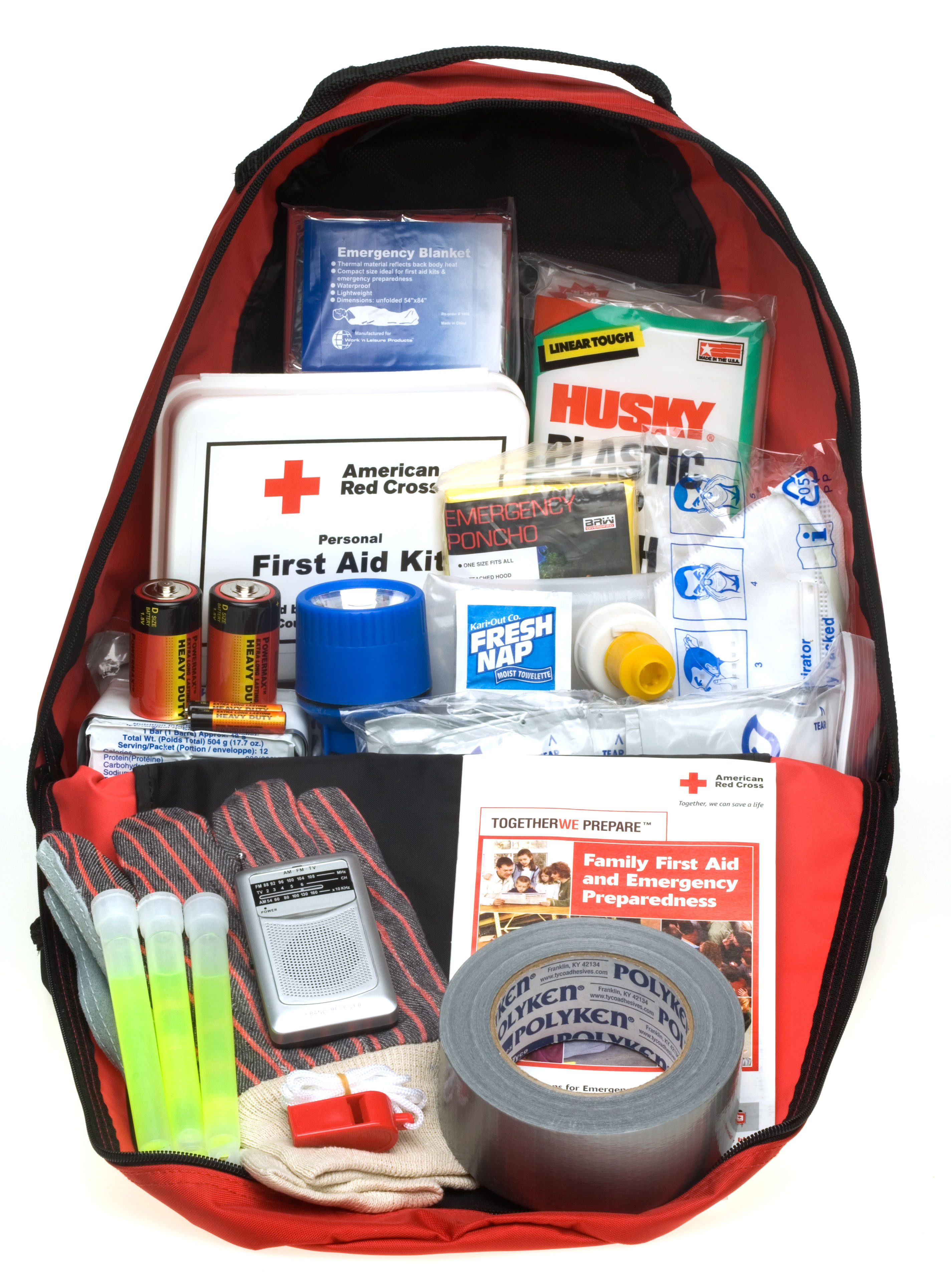 Washington, DC, March 07, 2006 -- A Red Cross "ready to go" preparedness kit showing the bag and it's contents. These kits are available from the Red Cross and the contents can be customized. Red Cross photograph